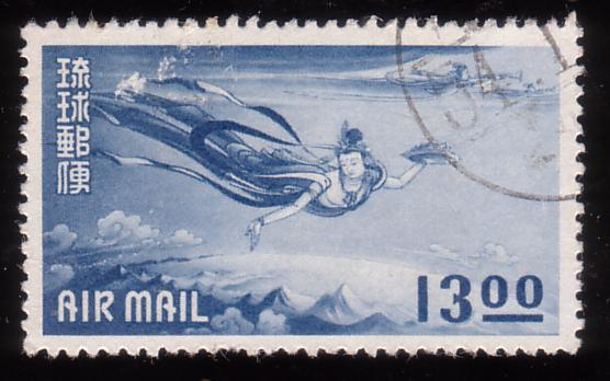 Ryukyuan Air stamp